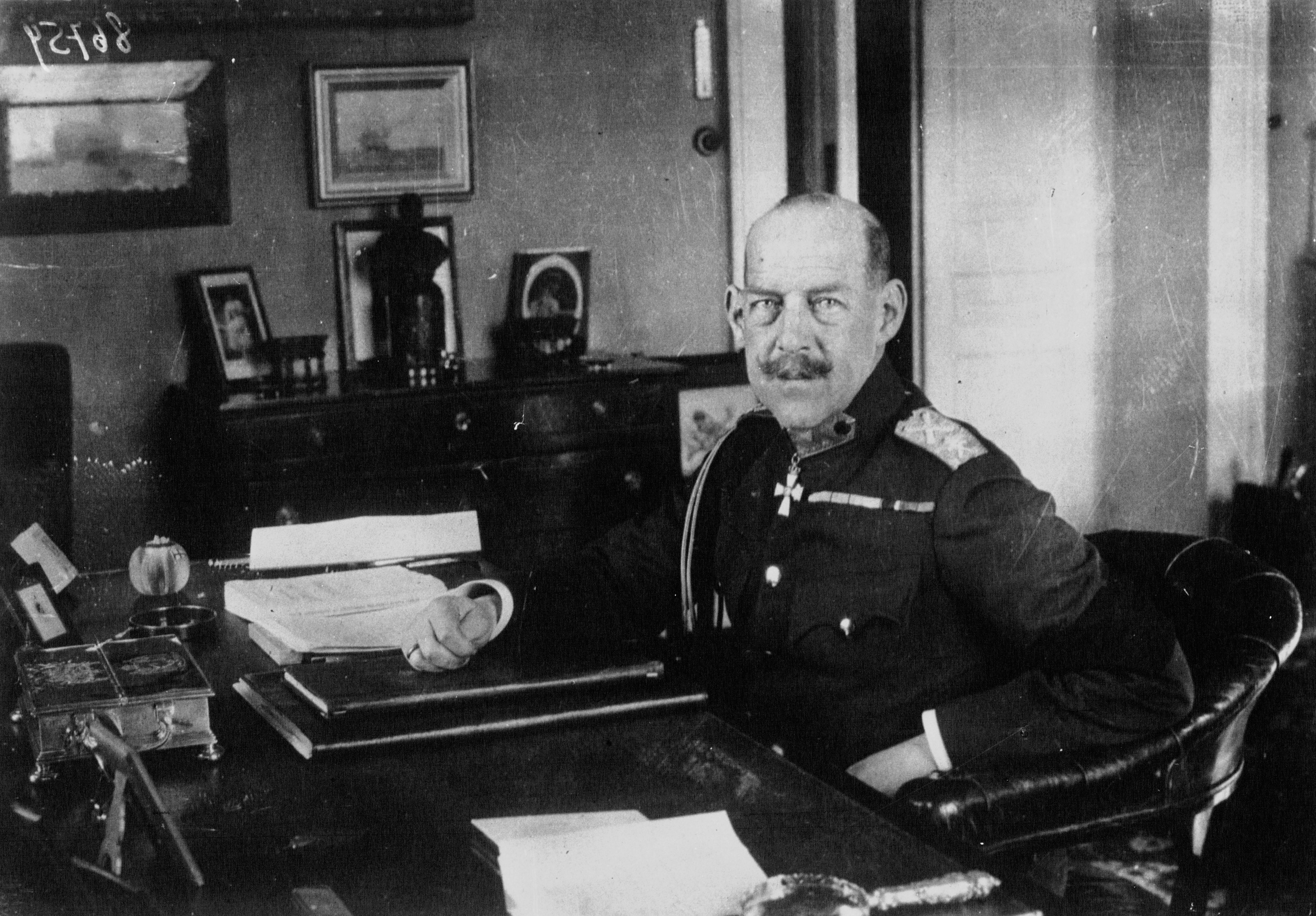 King Constantine I of Greece at his desk, ca. 1920/21